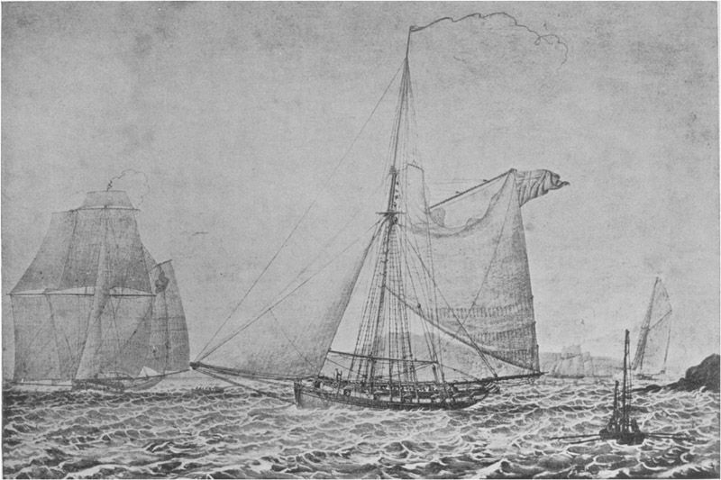 Scottish Board of Customs H.M. Cutter Wickham